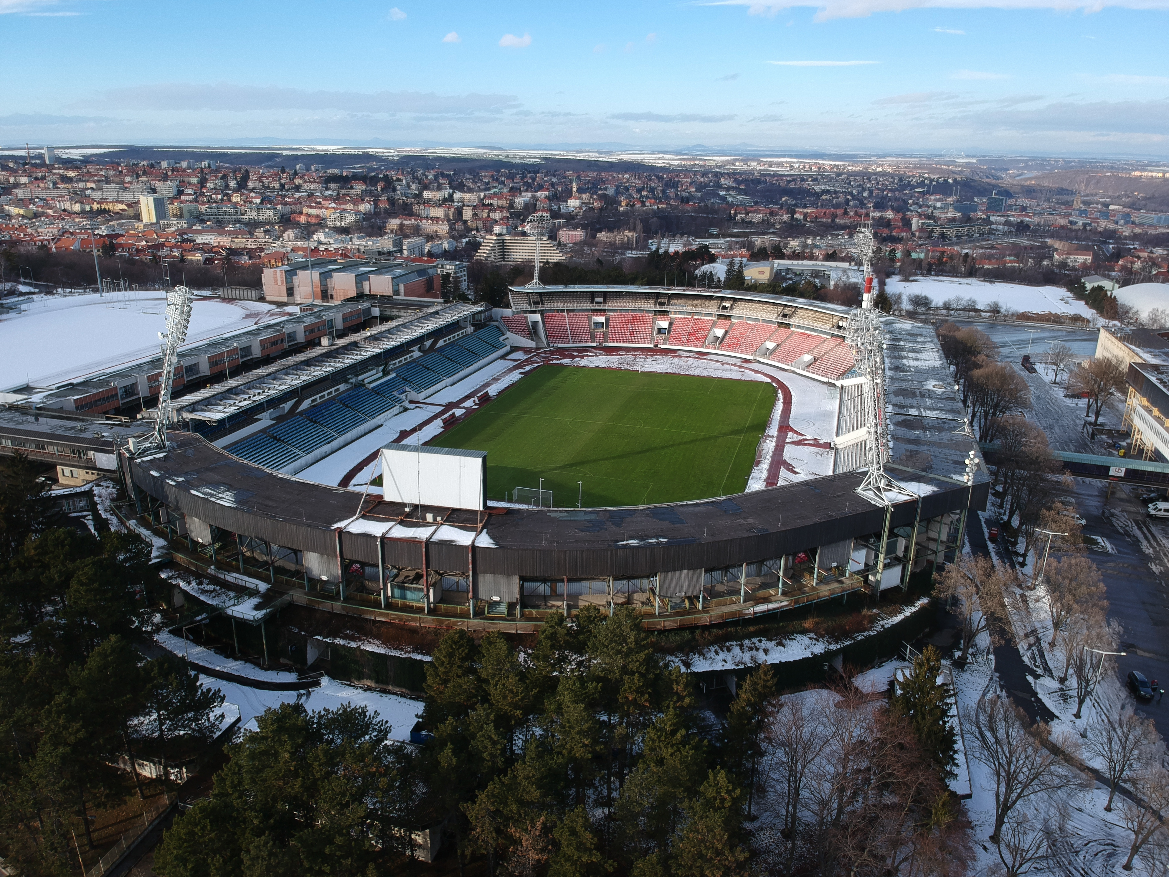 Stadion Evžena Rošického from south